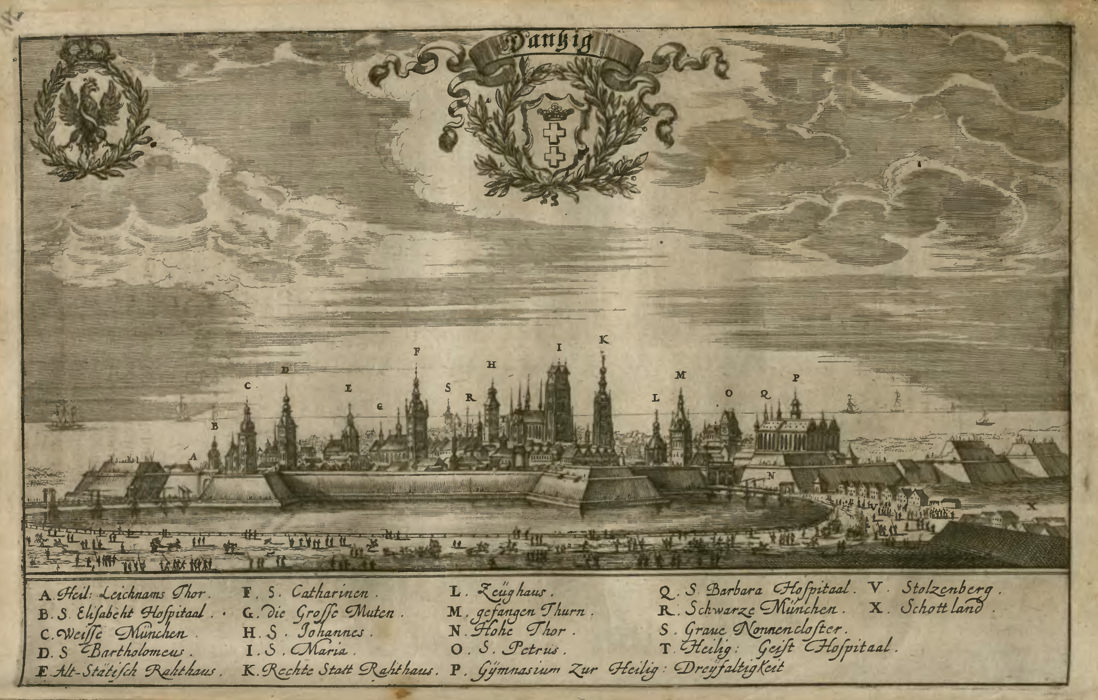 Digital copy of a book page with a view of Gdańsk